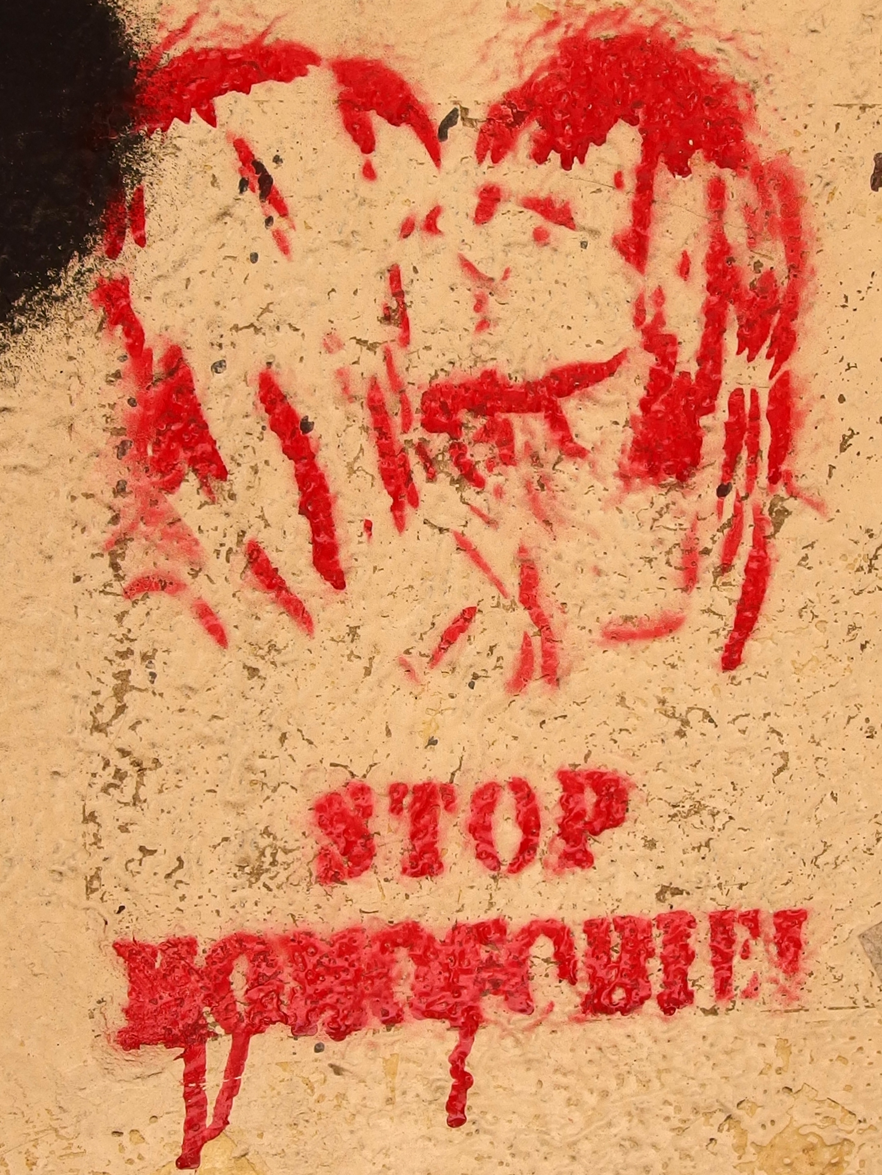 2014-08-18 in Bucharest.